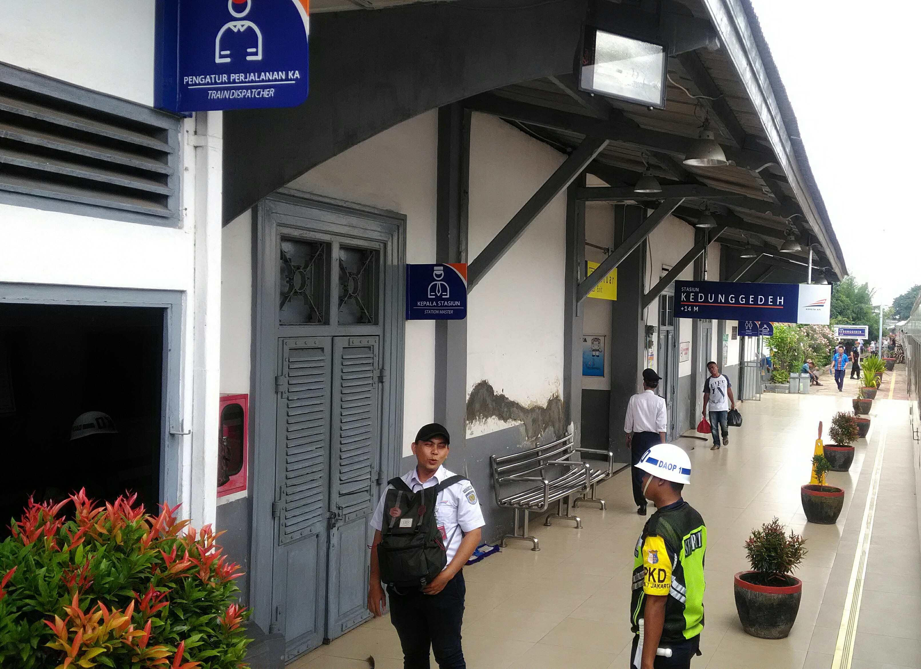 New Kedunggedeh Station